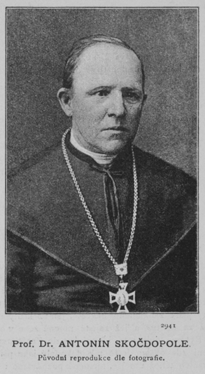 Photograph of Antonín Skočdopole (1828-1919), Czech Catholic bishop, teacher and writer.